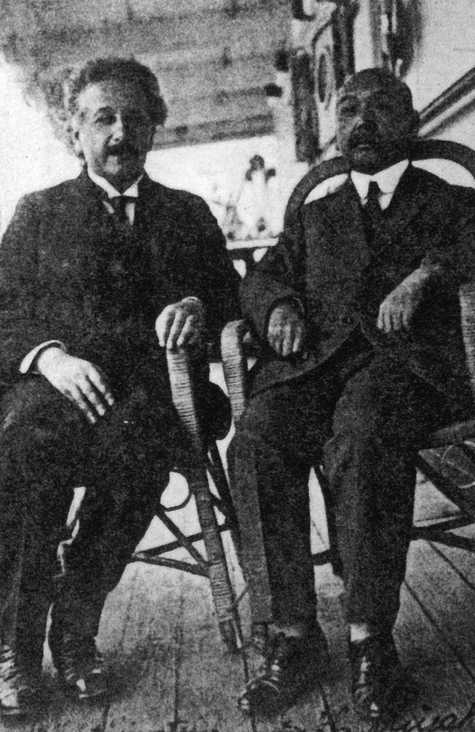 Albert Einstein and dr Hayari Miyake on the ship from Marseille to Japan, October 1922